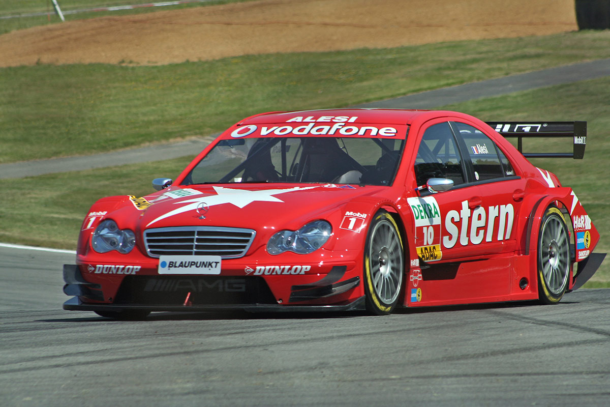 Jean Alesi driving for Mercedes-Benz in the 2006 Deutsche Tourenwagen Masters season.